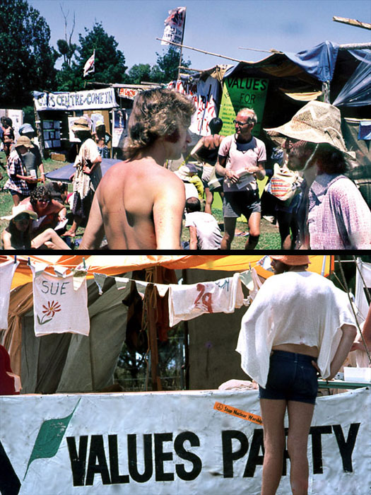 These photos were taken by the official Nambassa photographer at the Nambassa 3 and 5 day alternatives festival, 1979 & 1981. Uploaded by Mombas 09:34, 3 March 2007 (UTC) 1/ All users of this image are required to attribute this work to "Nambassa Trust and Peter Terry" and the URL: " " is to accompany all use. 2/ Attribution. You must attribute the work in the manner specified by the author or licensor. 3/ For any reuse or distribution, you must make clear to others the license terms of this work. Statement by Nambassa Trust and Peter Terry